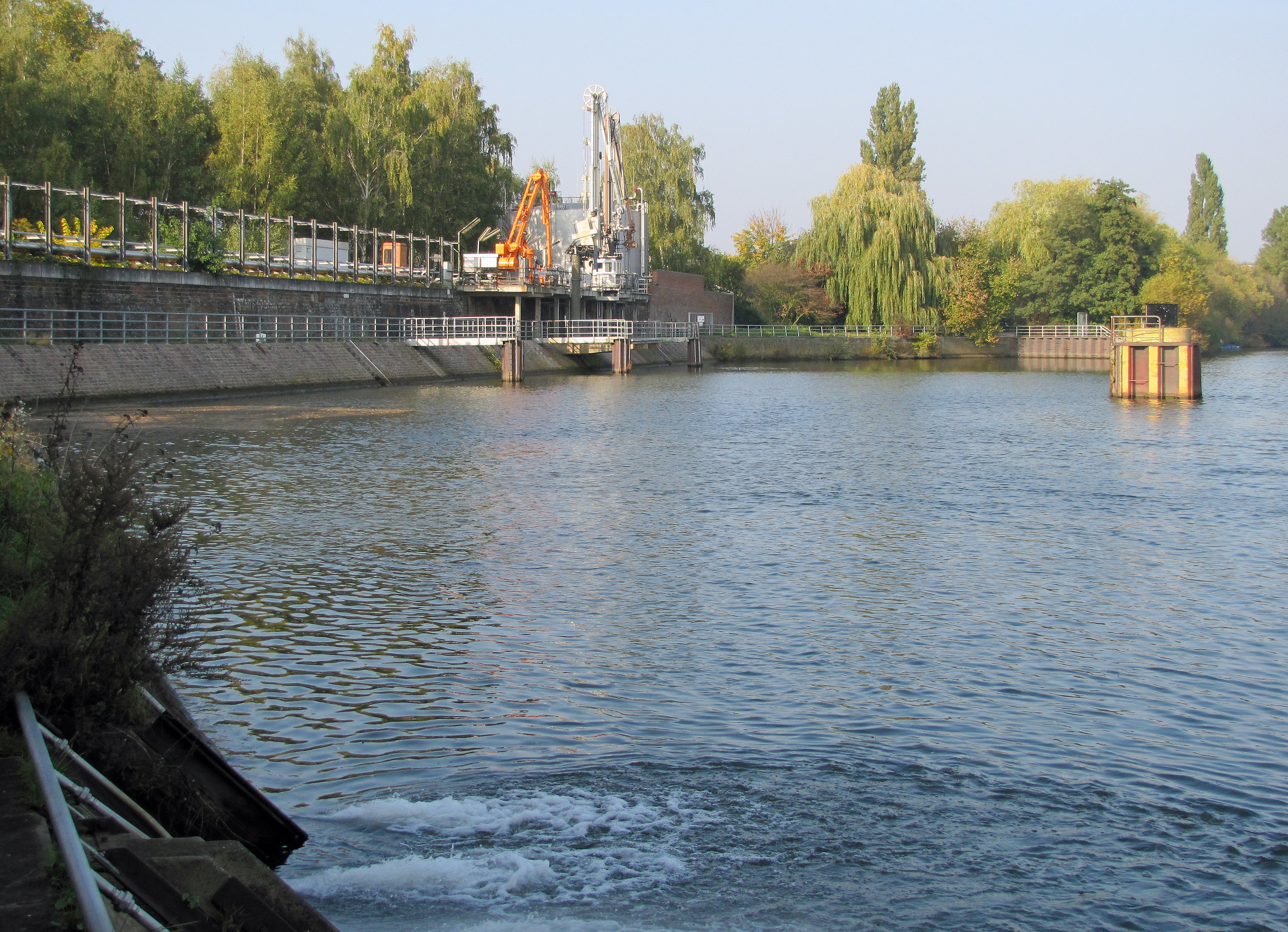 Company owned port of "AllessaChemie" at Frankfurt am Main Mainkur (Fechenheim), Germany.